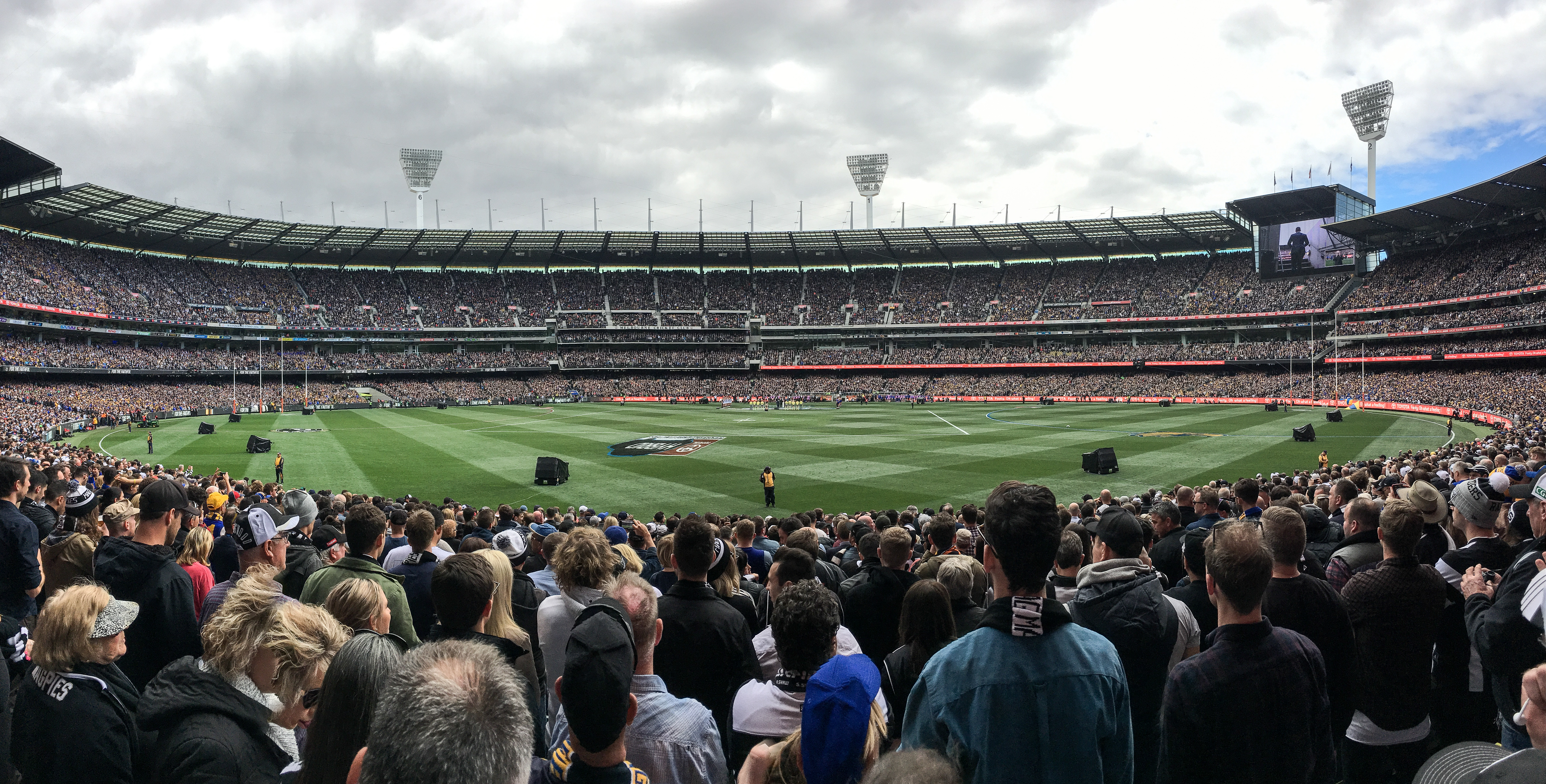 Panorama of the Melbourne Cricket Ground prior to the AFL Grand Final on 29 September 2018 in Melbourne, Victoria.